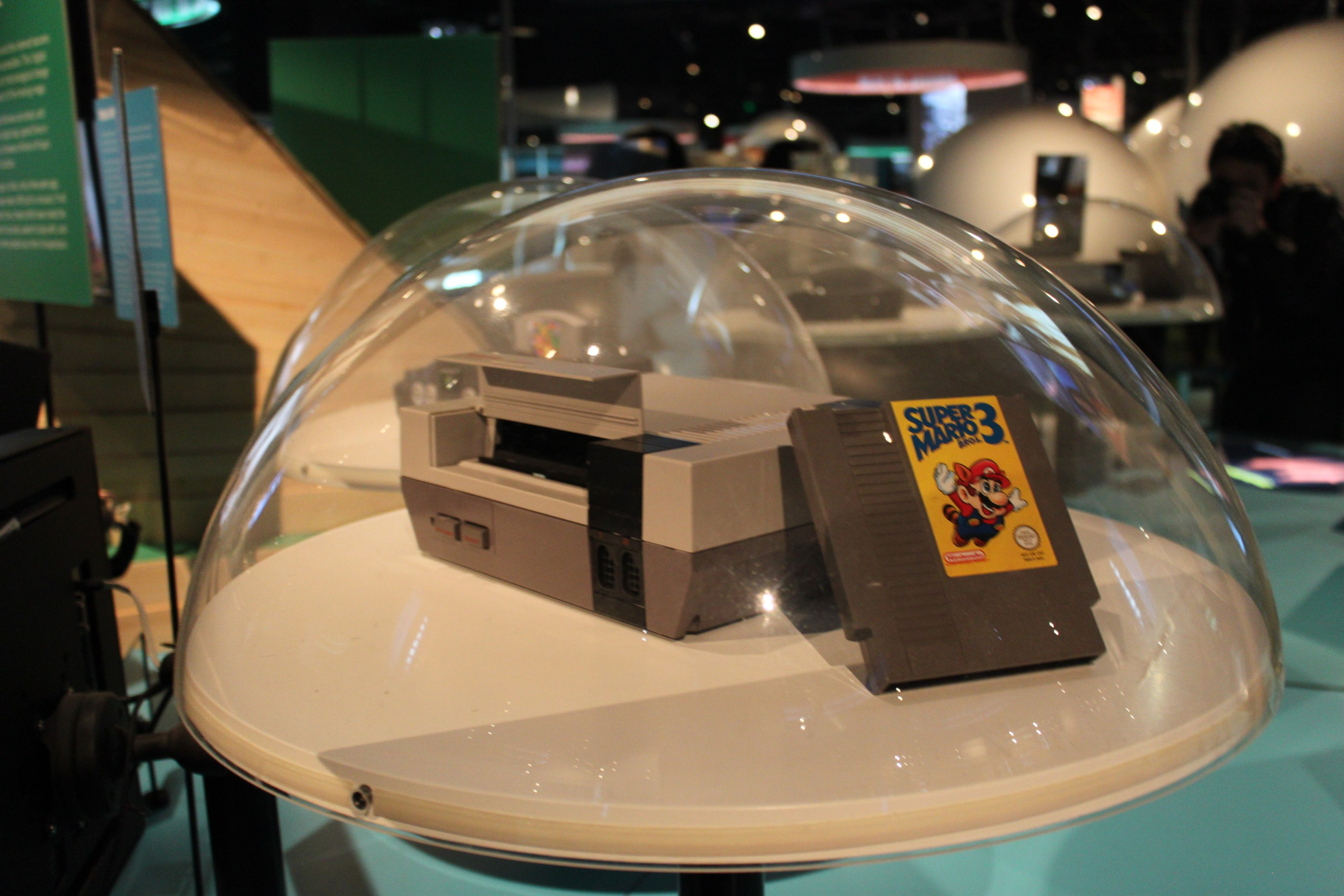 Australian Centre for the Moving Image, Melbourne, Australia.